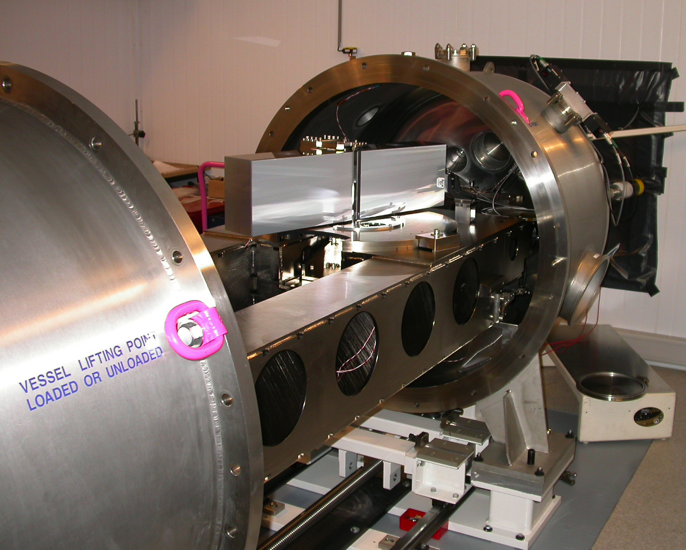 The HARPS spectrograph during laboratory tests. The vacuum tank is open so that some of the high-precision components inside can be seen. The large optical grating by which the incoming stellar light is dispersed is visible on the top of the bench ; it measures 200 x 800 mm.